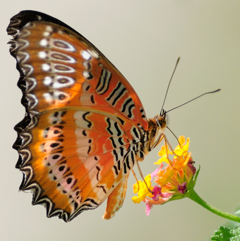 Cethosia biblis, Red Lacewing butterfly.